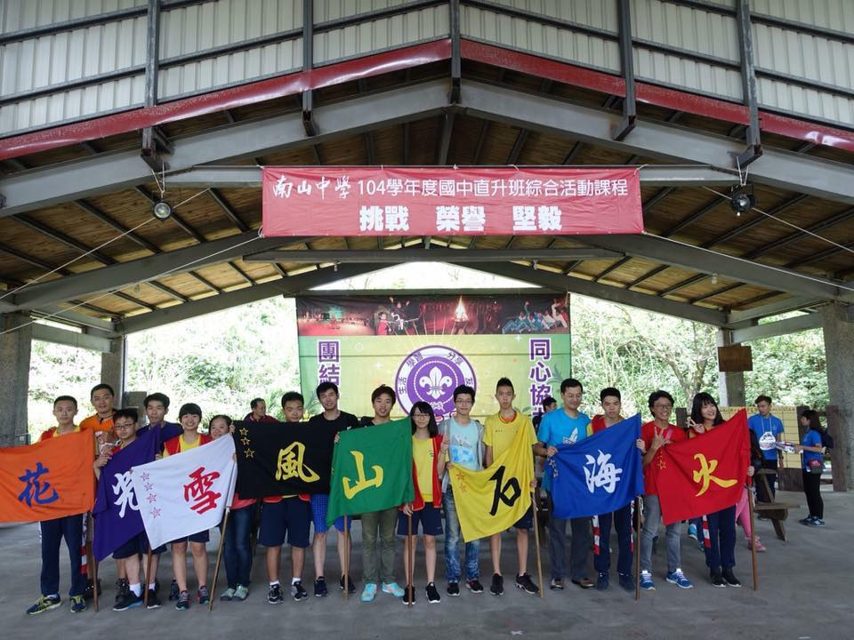 House Leaders NSSH